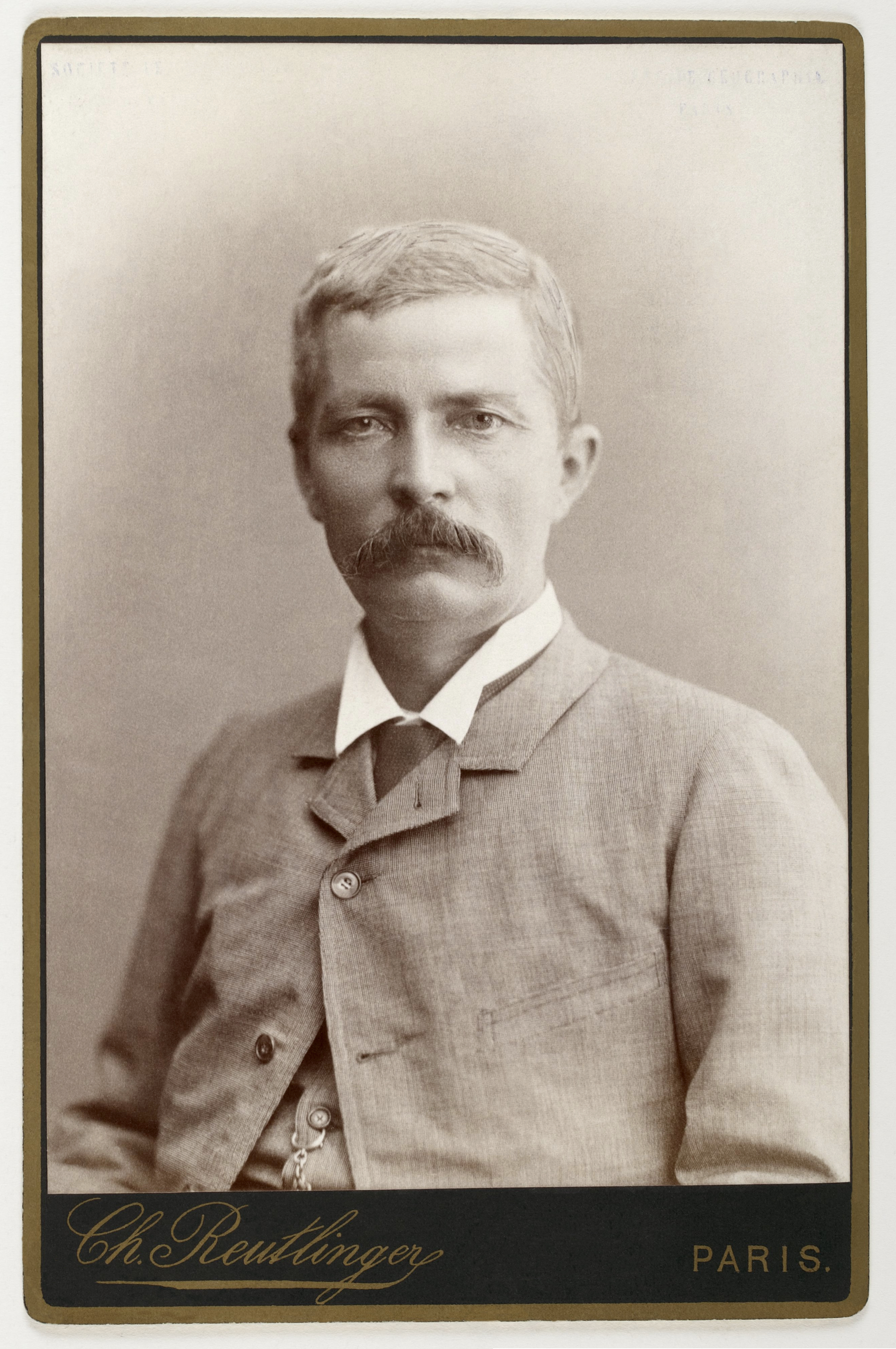 Henry Morton Stanley (1841-1904), welsh explorer of Central Africa.